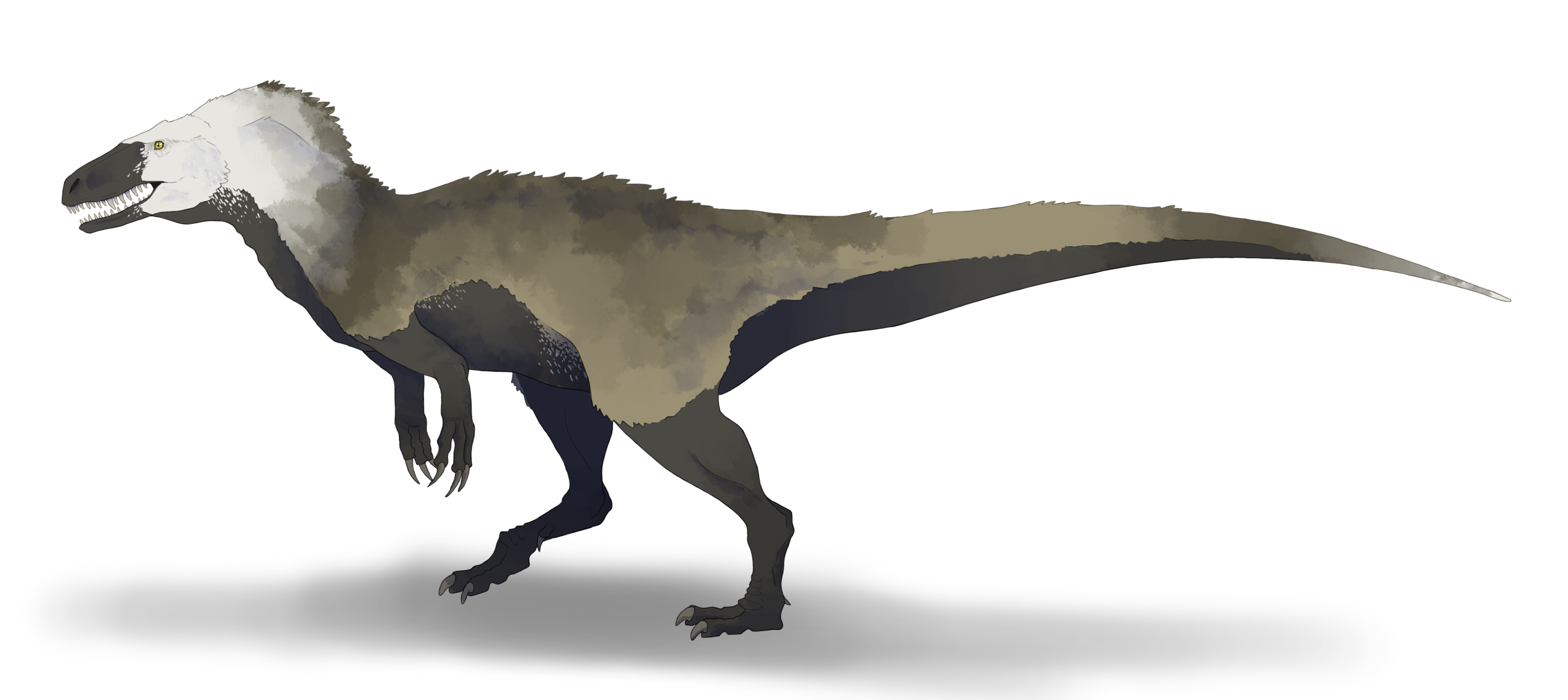 A restoration of Lourinhanosaurus antunesi based on the holotype ML 370, various skeletal mounts, and diagrams.